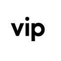 Logo of VIPnet.